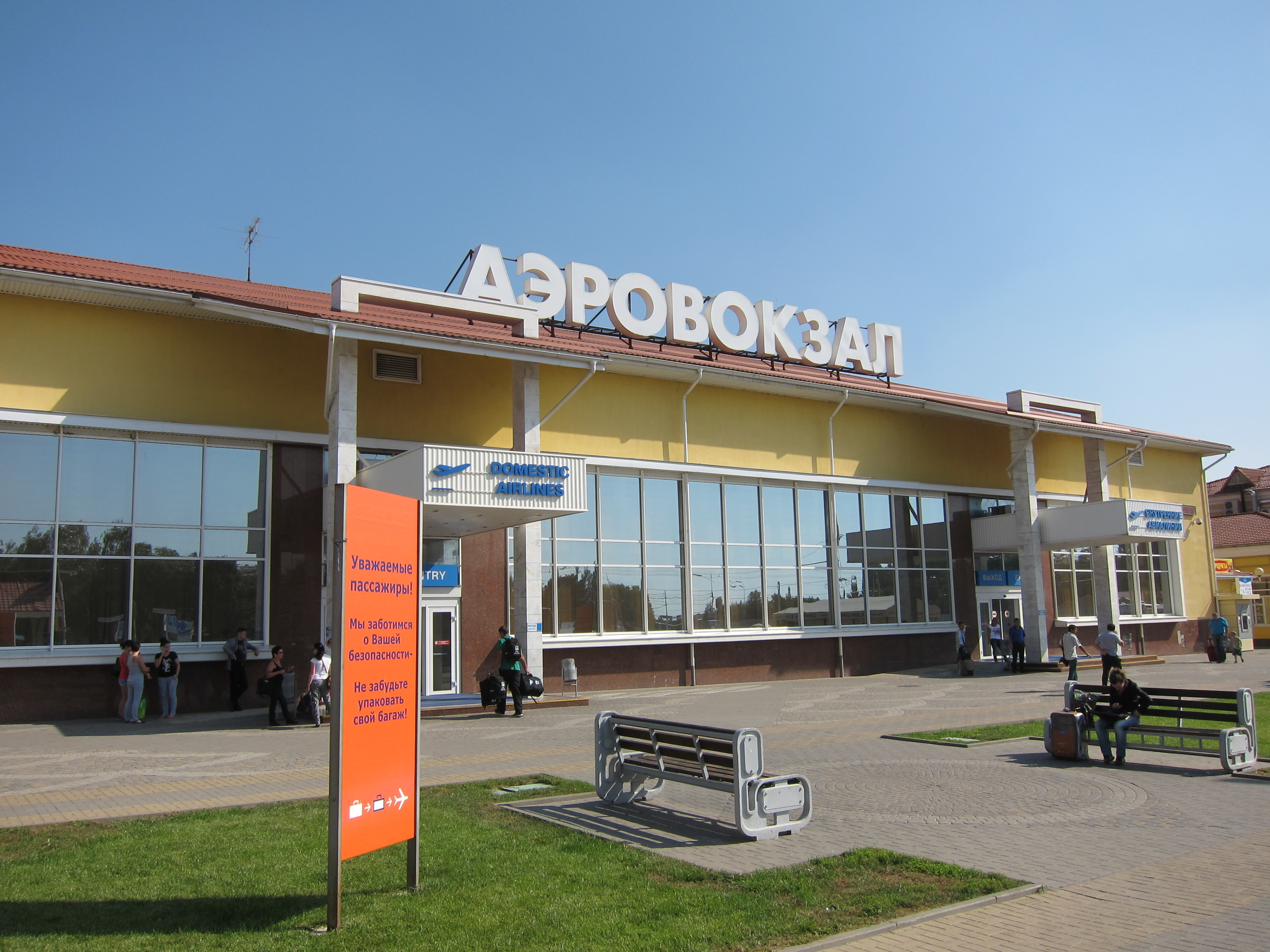 Domestic terminal of Krasnodar Airport/Pashkovsky Airport